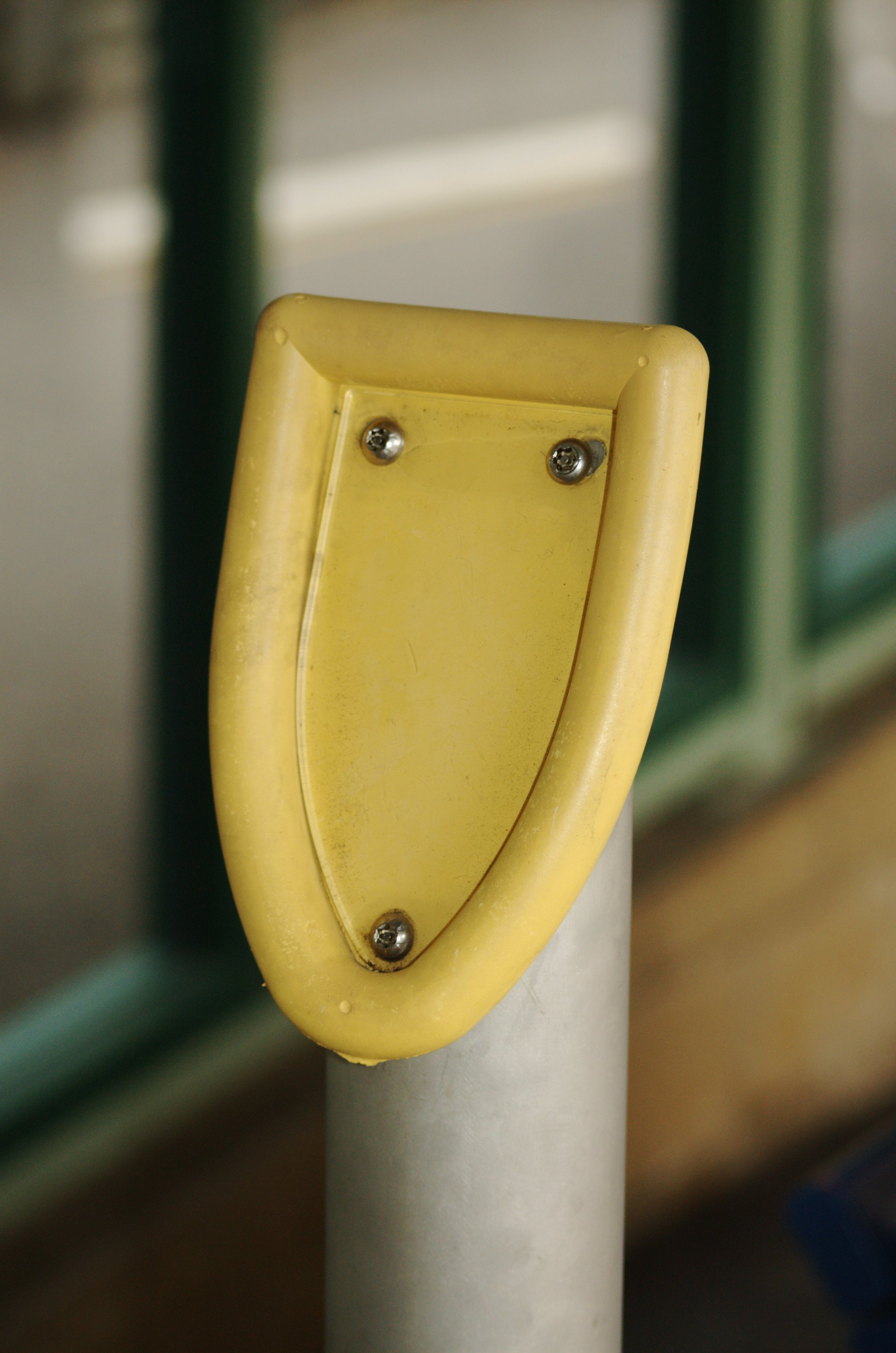 A post for the T-Card electronic ticketing system.